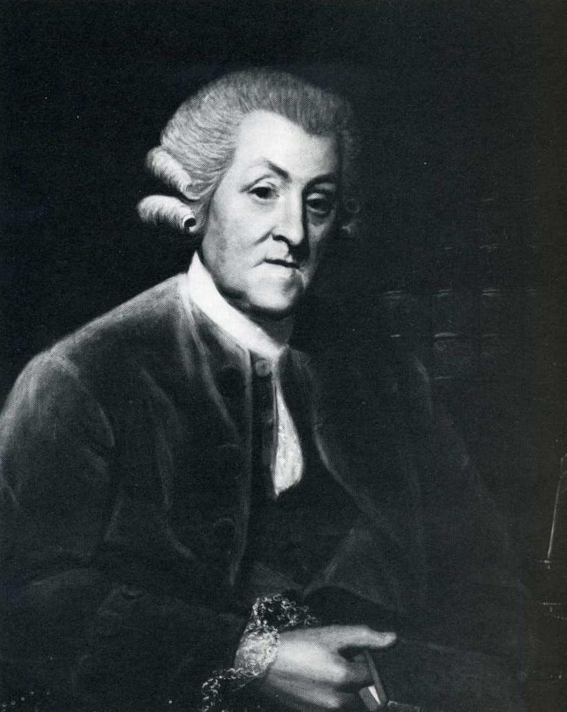 Depicted person: John Hawkins